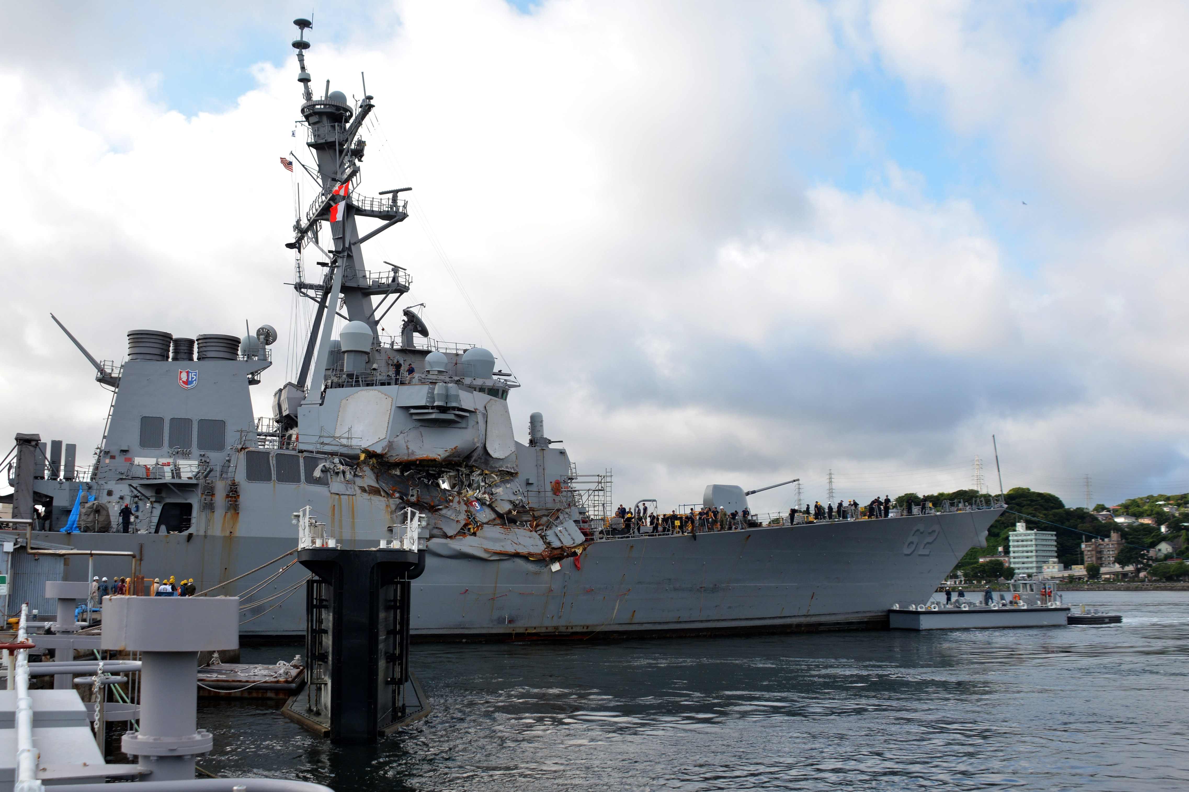 YOKOSUKA, Japan. (July 11, 2017) Arleigh Burke-class guided-missile destroyer USS Fitzgerald (DDG 62) moves into Dry Dock 4 at Fleet Activities (FLEACT) Yokosuka to continue repairs and assess damage sustained from its June 17 collision with a merchant vessel. FLEACT Yokosuka provides, maintains, and operates base facilities and services in support of U.S. 7th Fleet’s forward-deployed naval forces, 71 tenant commands and 26,000 military and civilian personnel. (U.S. Navy photo by Mass Communication Specialist 1st Class Peter Burghart/Released)